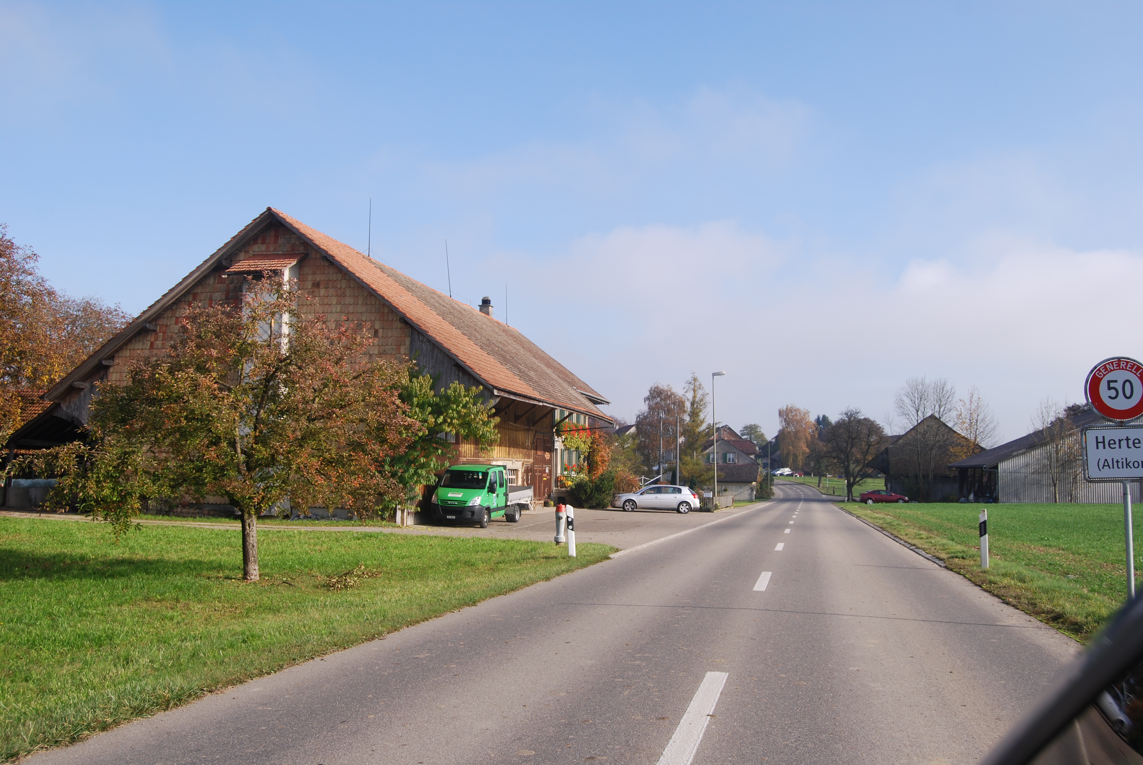 Herten, municipality of Altikon, canton of Zürich, SwitzerlandEsperanto: Herten, komunumo Altikon, Kantono Zuriko, Svislando